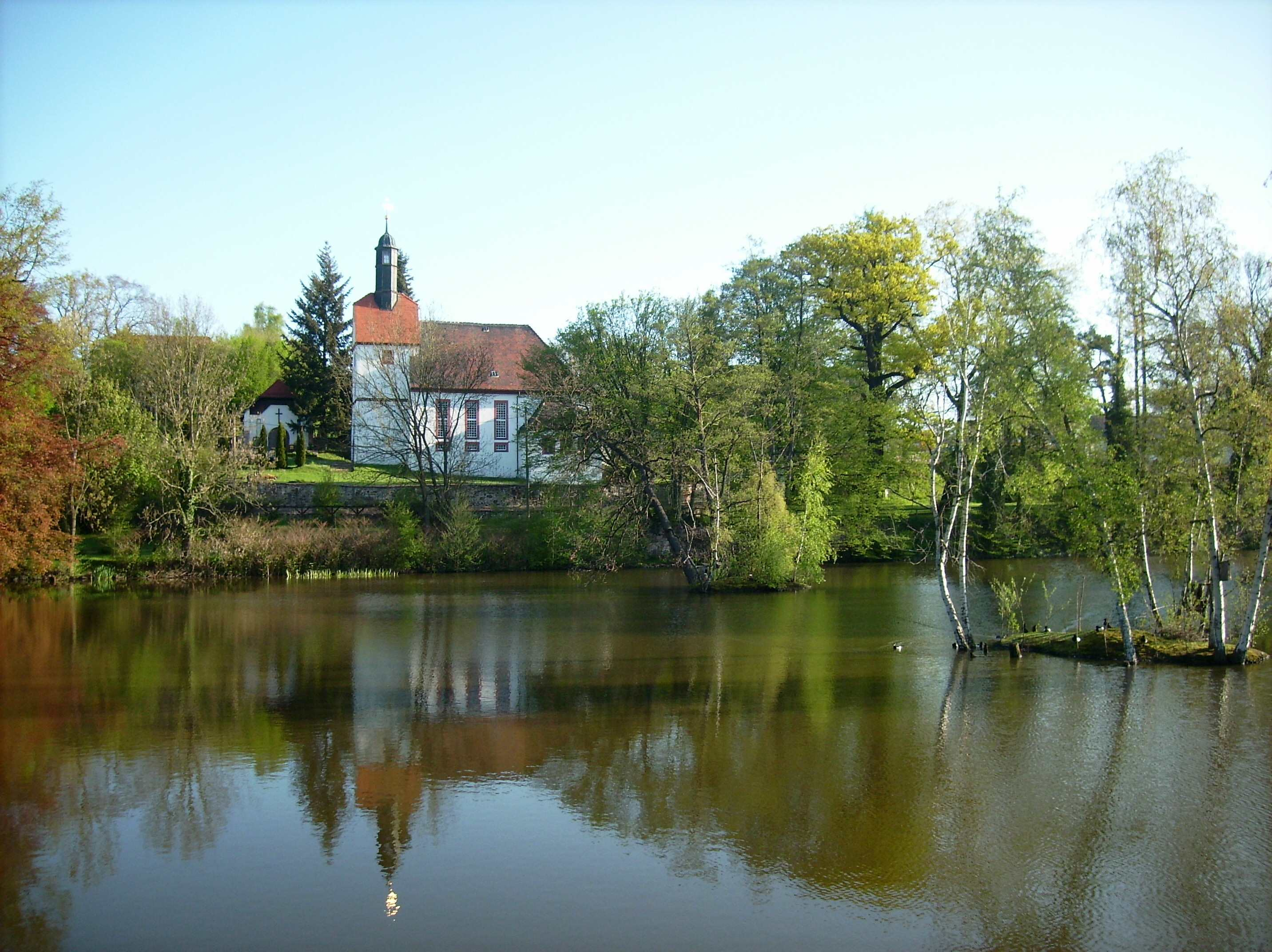 Church at Königsfeld (Mittelsachsen district, Saxony)